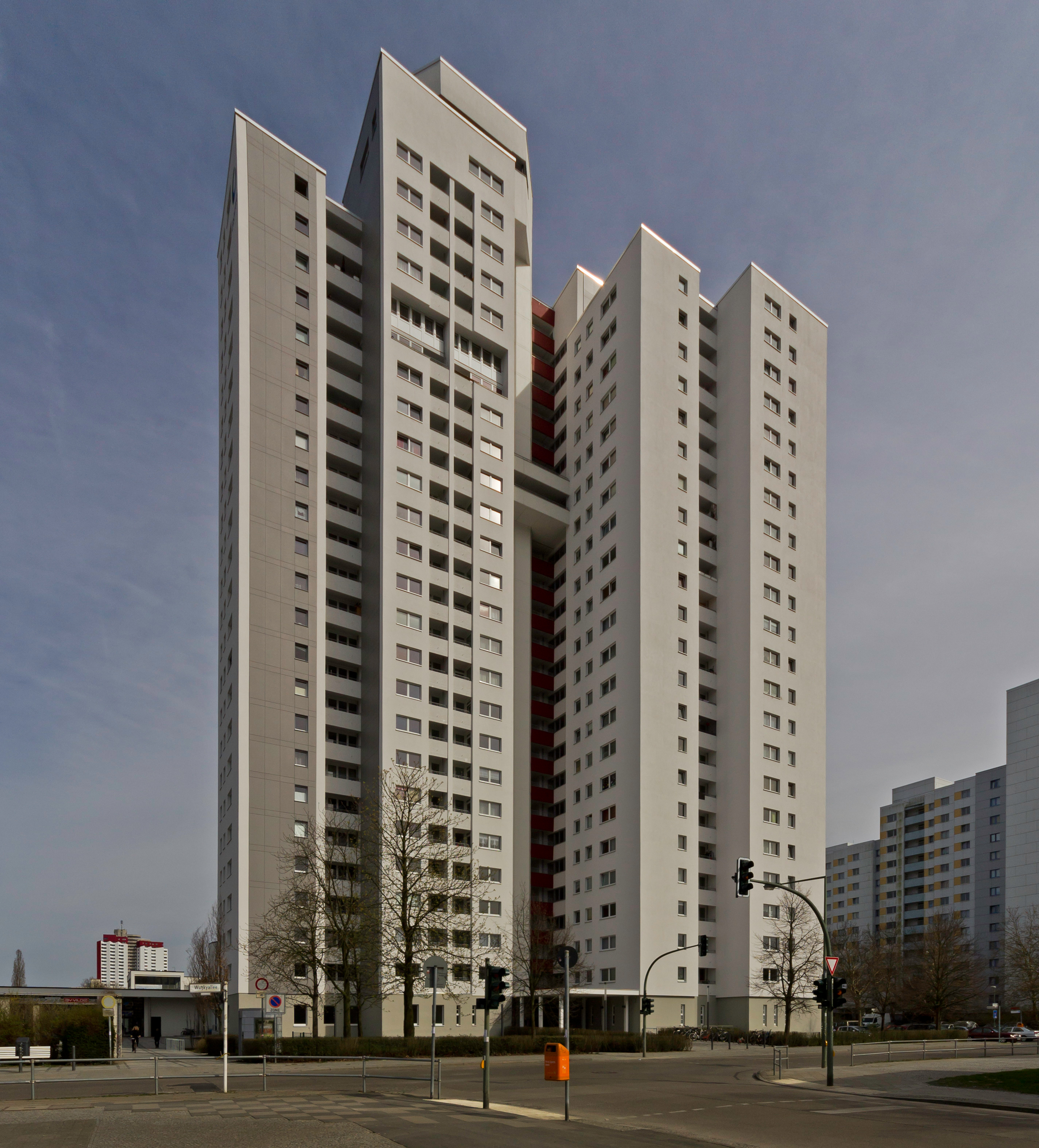 Apartment high-rise Joachim-Gottschalk-Weg / Wutzkyallee. Berlin, Germany.